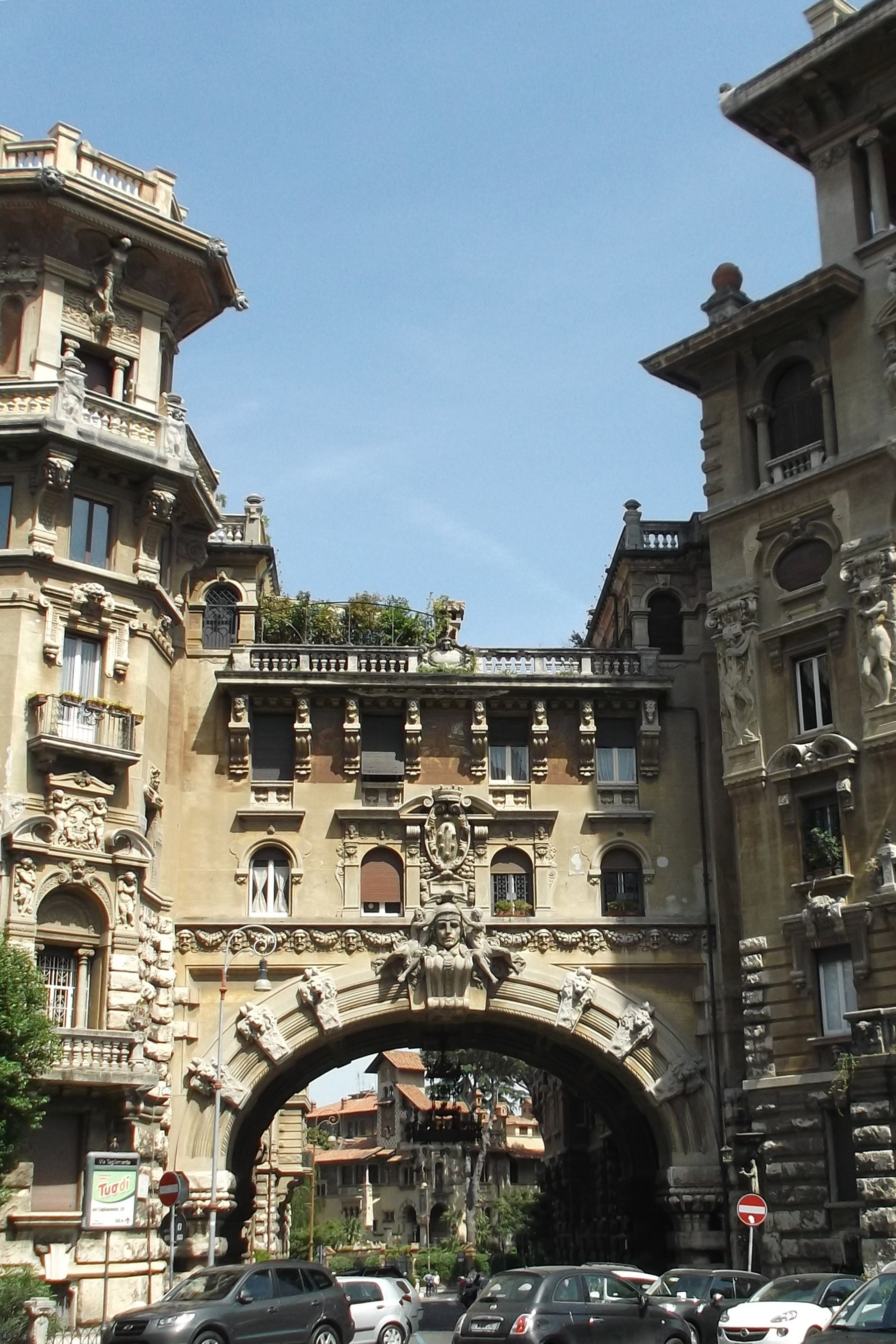 Arch between the Buildings of the Ambassadors, Quartiere Coppedè in Rome, Italy